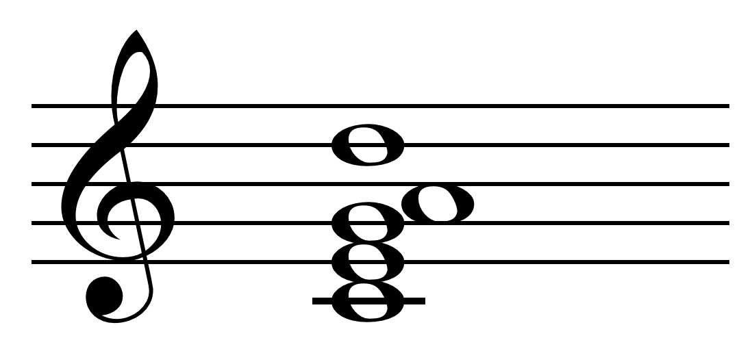 C6add9 chord. Created by Hyacinth (talk) 02:53, 30 April 2010 using Sibelius.